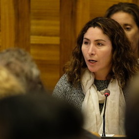 Ana Maria Hernández, Chair, Intergovernmental Science-Policy Platform on Biodiversity and Ecosystem Services (IPBES) 5th BioTrade Congress: Linking trade and biodiversity. Geneva, Switzerland, 12 September. Held as part of the first-ever United Nations Trade Forum. Photo: Timothy Sullivan (UNCTAD)